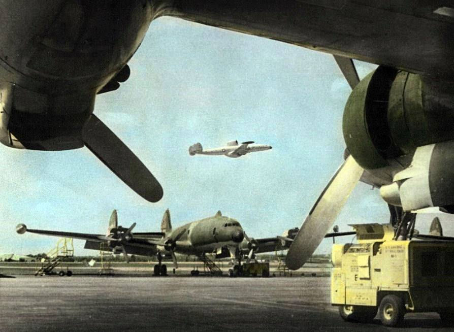 552d AEWCW EC-121R Batcat